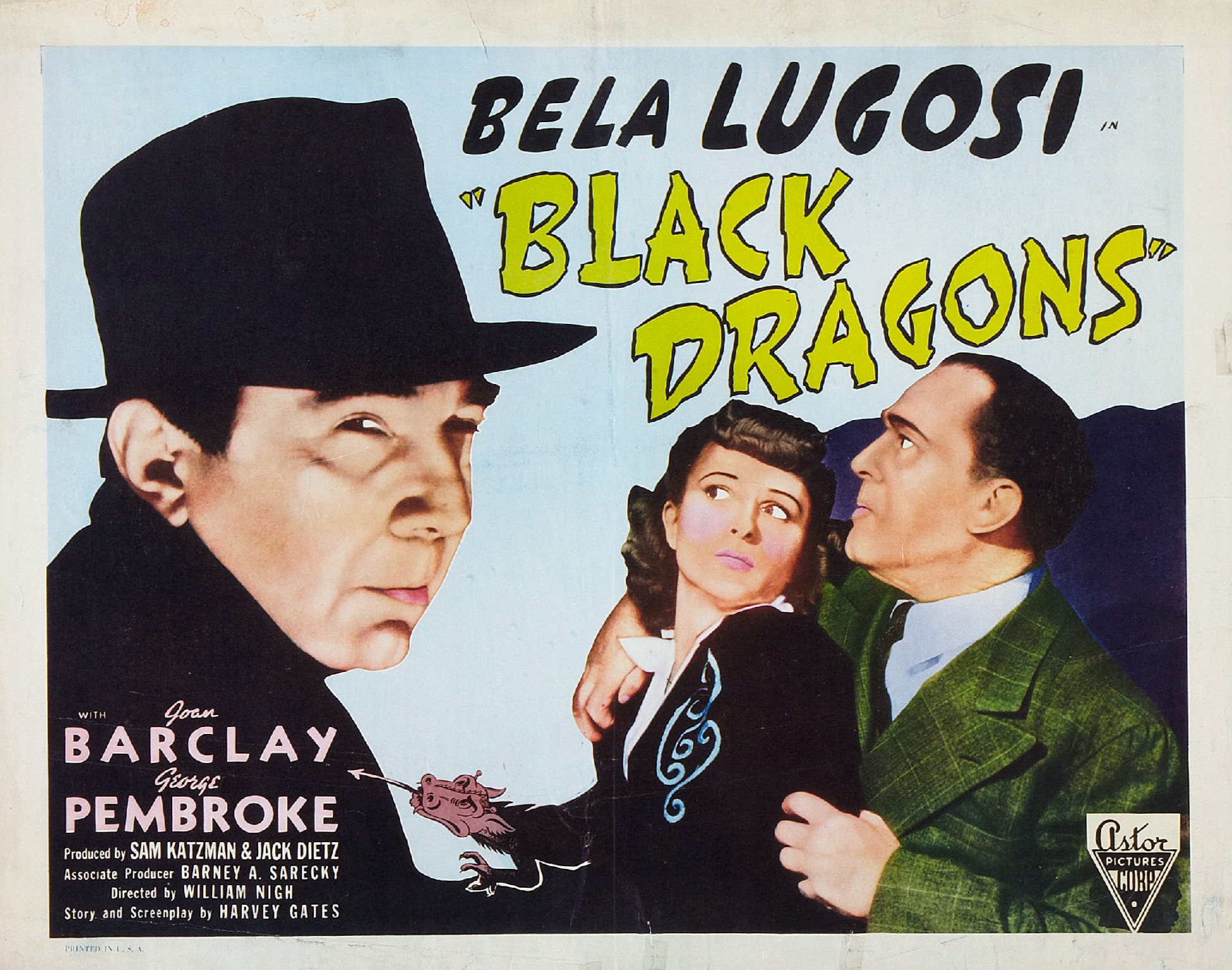 Poster for the American film Black Dragons (1942) with Bela Lugosi, Joan Barclay, and George Pembroke. The item has no copyright markings on it as can be seen in the links above and on original upload. At bottom left is Printed in USA.